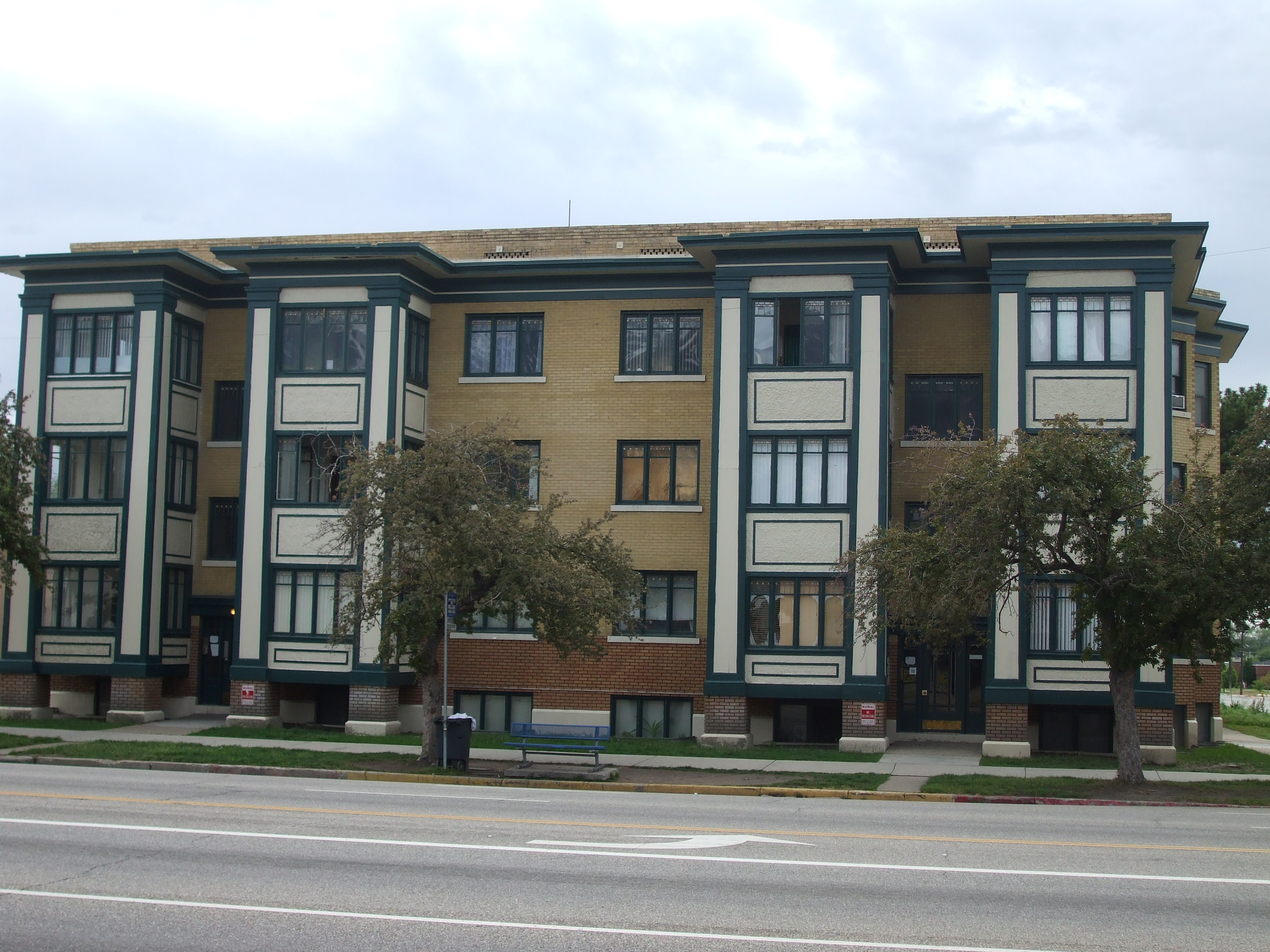 The Browning Apartments, a historic building in Ogden, Utah, United States.